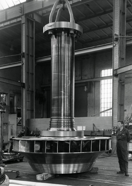 The shaft and runner to turbine No.1 in Tonstad hydropower plant installed at Kvaerner Brug. November 1967, Norway, Oslo, Lodalen.